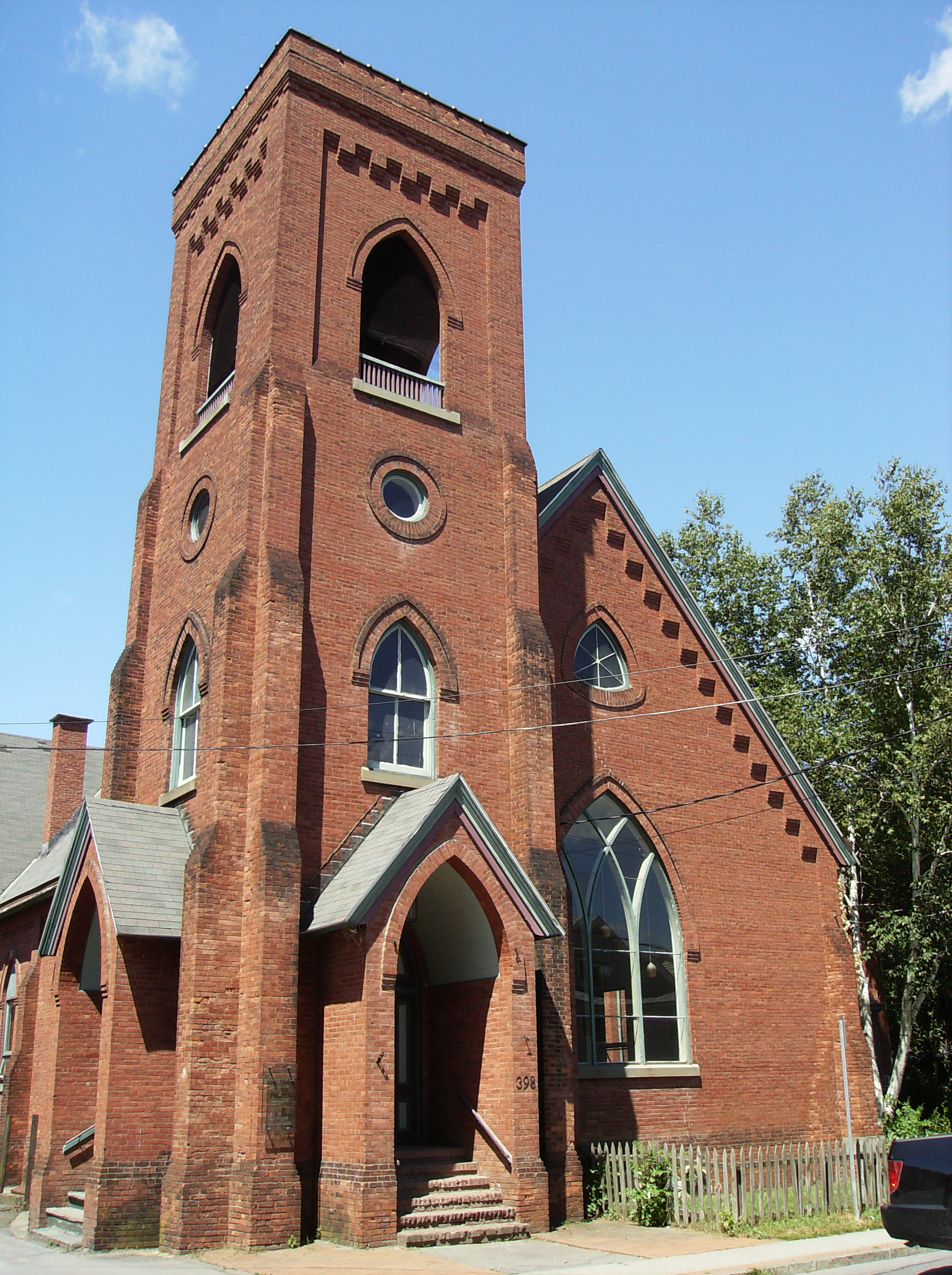 The former Dutch Reformed Church in Rosendale, New York, currently a glass studio called Belltower Lighting.